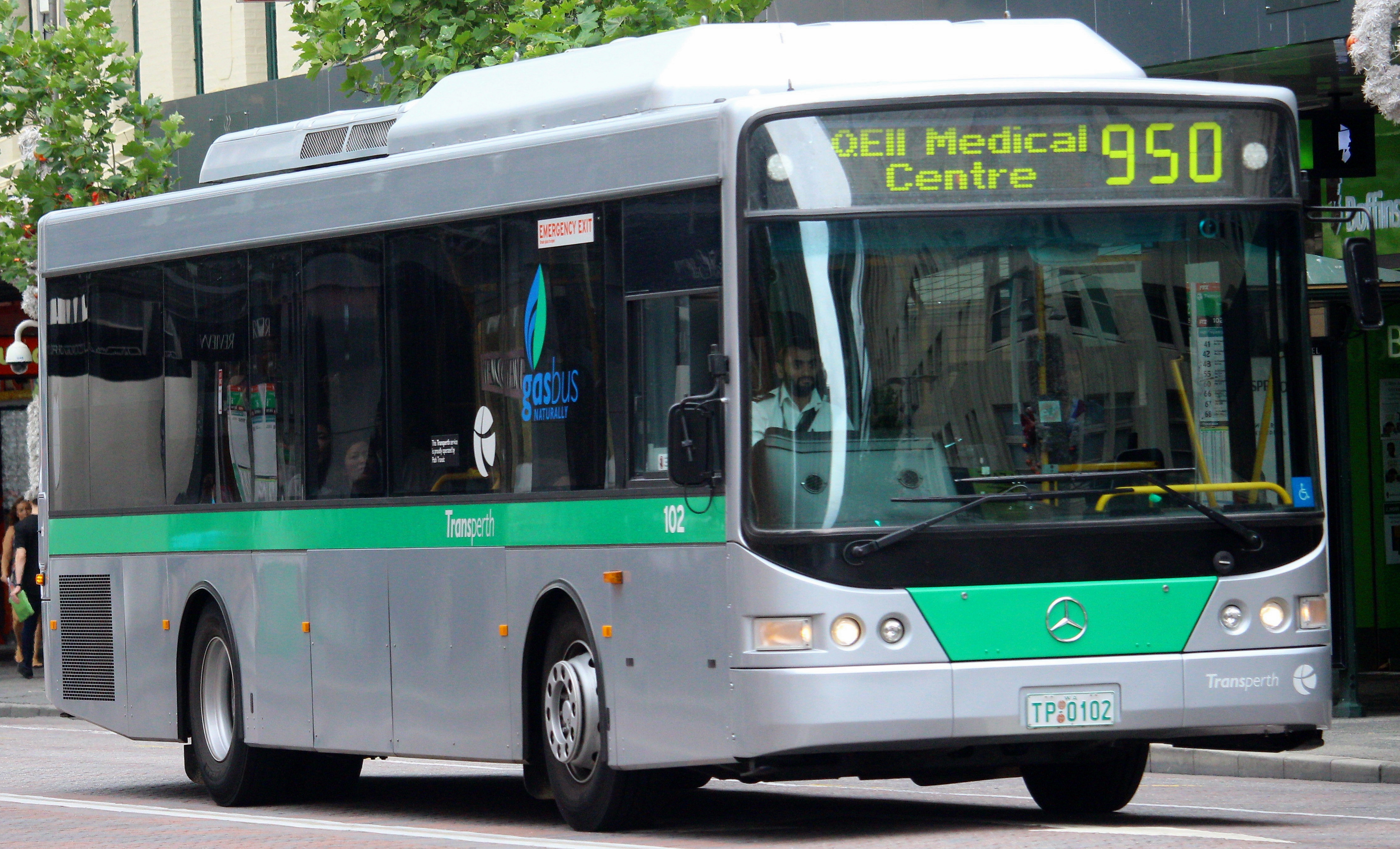 Transperth Volgren bodied Mercedes-Benz OC 500 LE CNG operating under Path Transit on a 950 route. This is an example of one of the discontinued models from the Perth CAT fleet as they are replaced by the Volvo B8RLEs. This is a short wheelbase model, these are not too common, as we see more the long wheelbase models.